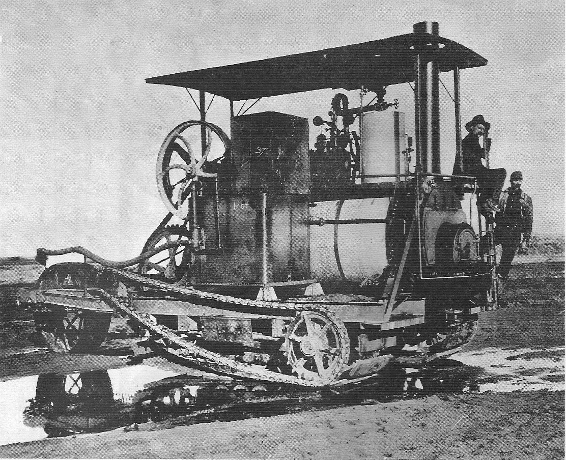 Holt Steamer No. 77, the second prototype of a crawler-track-type tractor built by the Holt Machinery Company of Stockton, California in 1905. It is shown on a trial run on Roberts Island, demonstrating its capability at navigating across the peat soil of the delta island. The tracks revolved around rough sprockets driven by long exposed chains. The track shoes were heavy blocks of redwood.